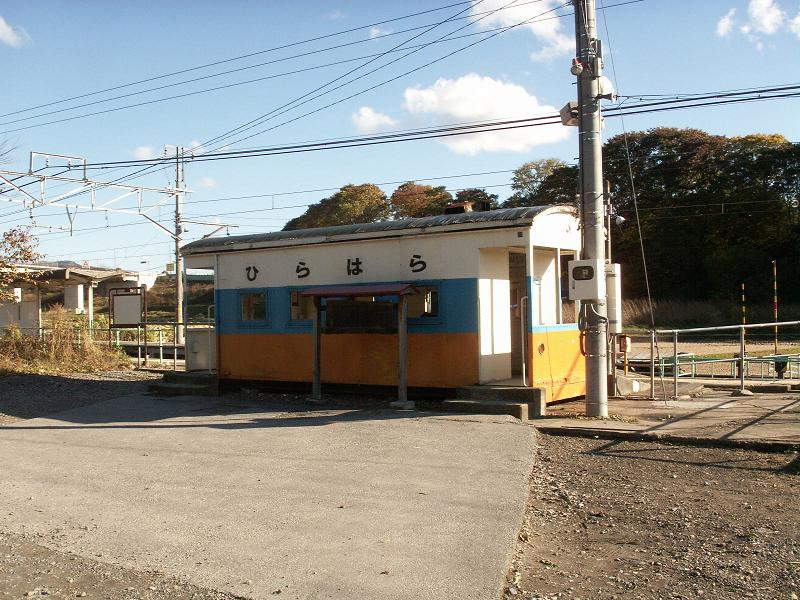 Hirahara Station in Komoro, Nagano Prefecture, Japan